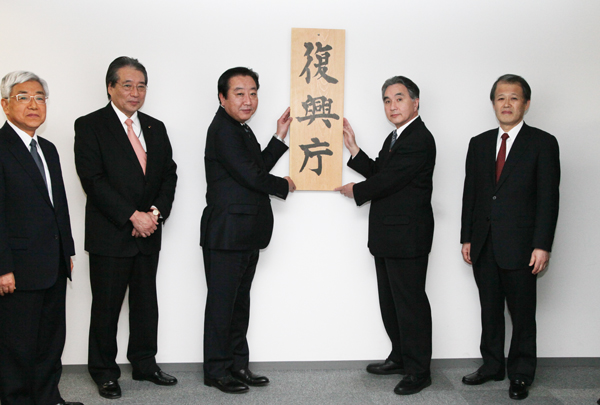 Yoshihiko Noda, Prime Minister, and Tatsuo Hirano, Minister for Reconstruction, hung up a signboard for the Reconstruction Agency with Yukiyoshi Minehisa, Vice-Minister for Reconstruction, at the Sankaido Building in Minato Ward, Tōkyō Metropolis on February 10, 2012.